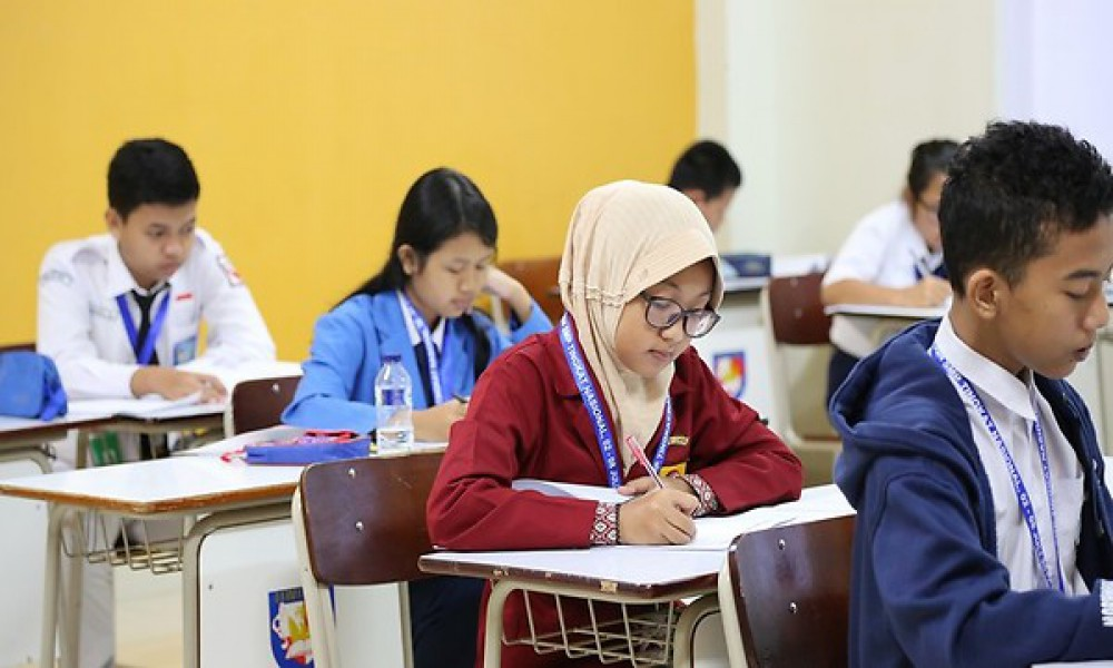 Junior high school participants of the Indonesian National Science Olympiad 2017 sitting a theoretical exam